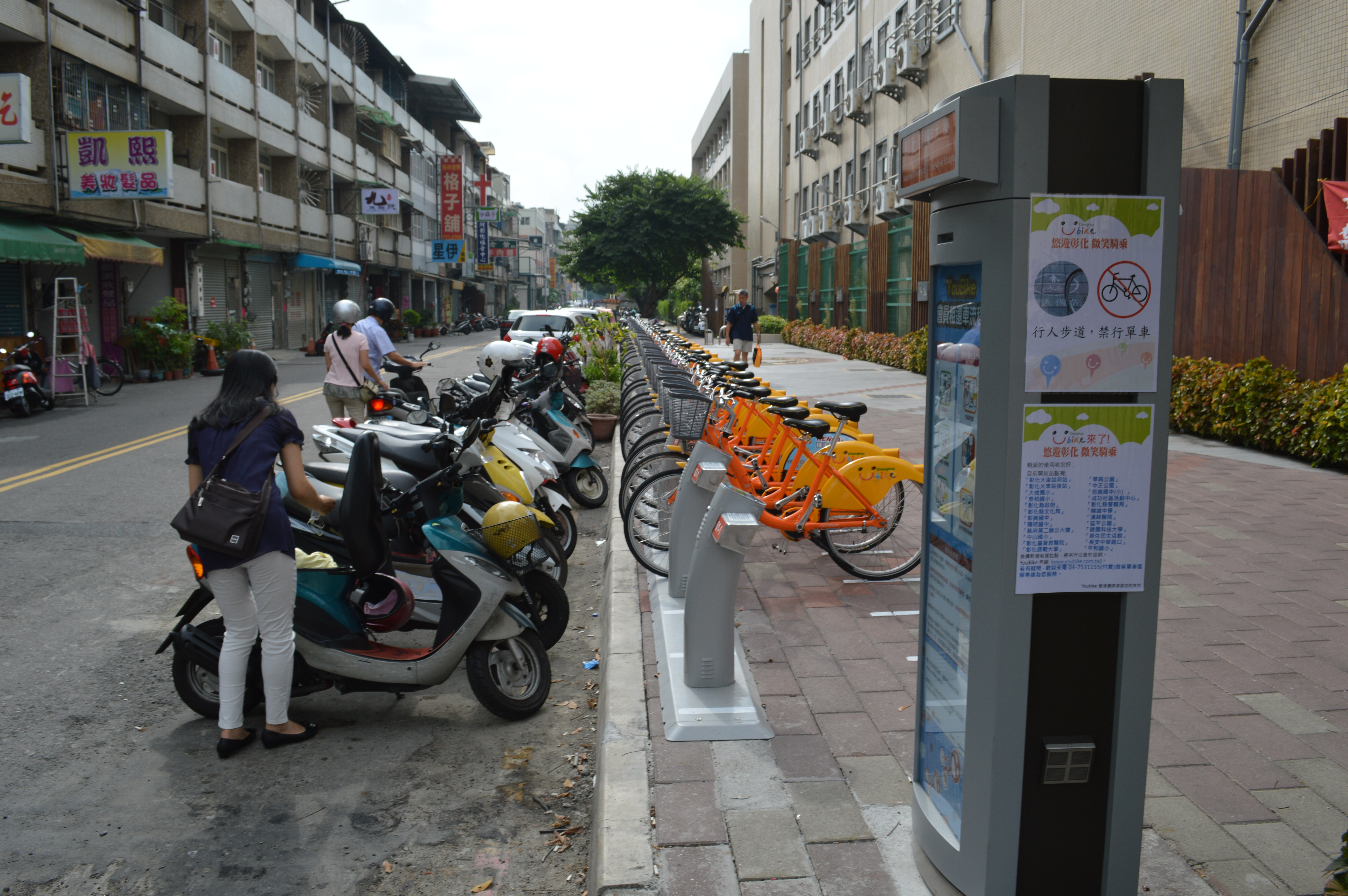 Youbike Station in National Changhua University of Education